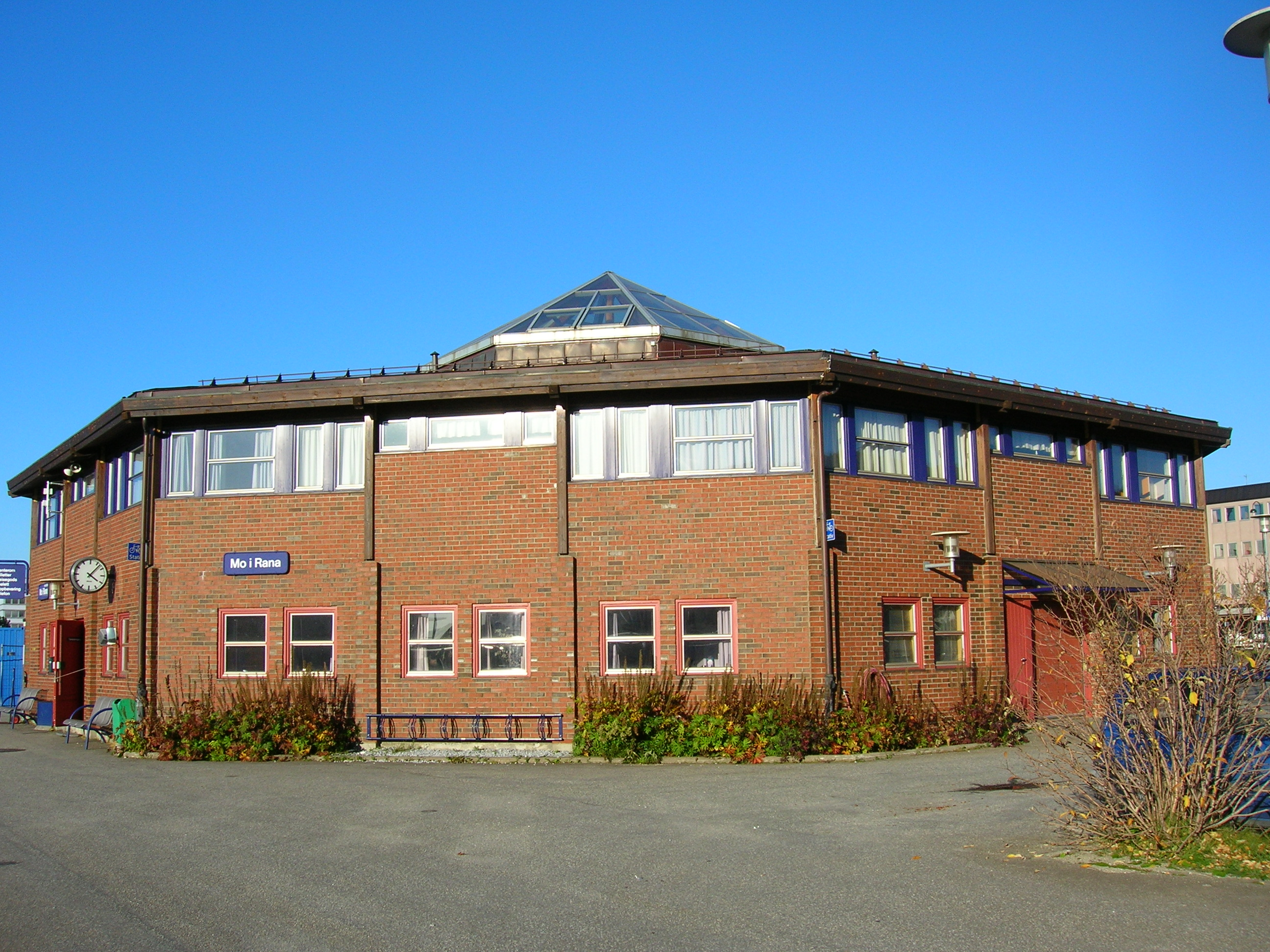 Mo i Rana railway station, Rana municipality, county of Nordland, Norway, southern side. Photo 28 September 2007 with a Nikon Coolpix 5600 5,1 Megapixel camera.